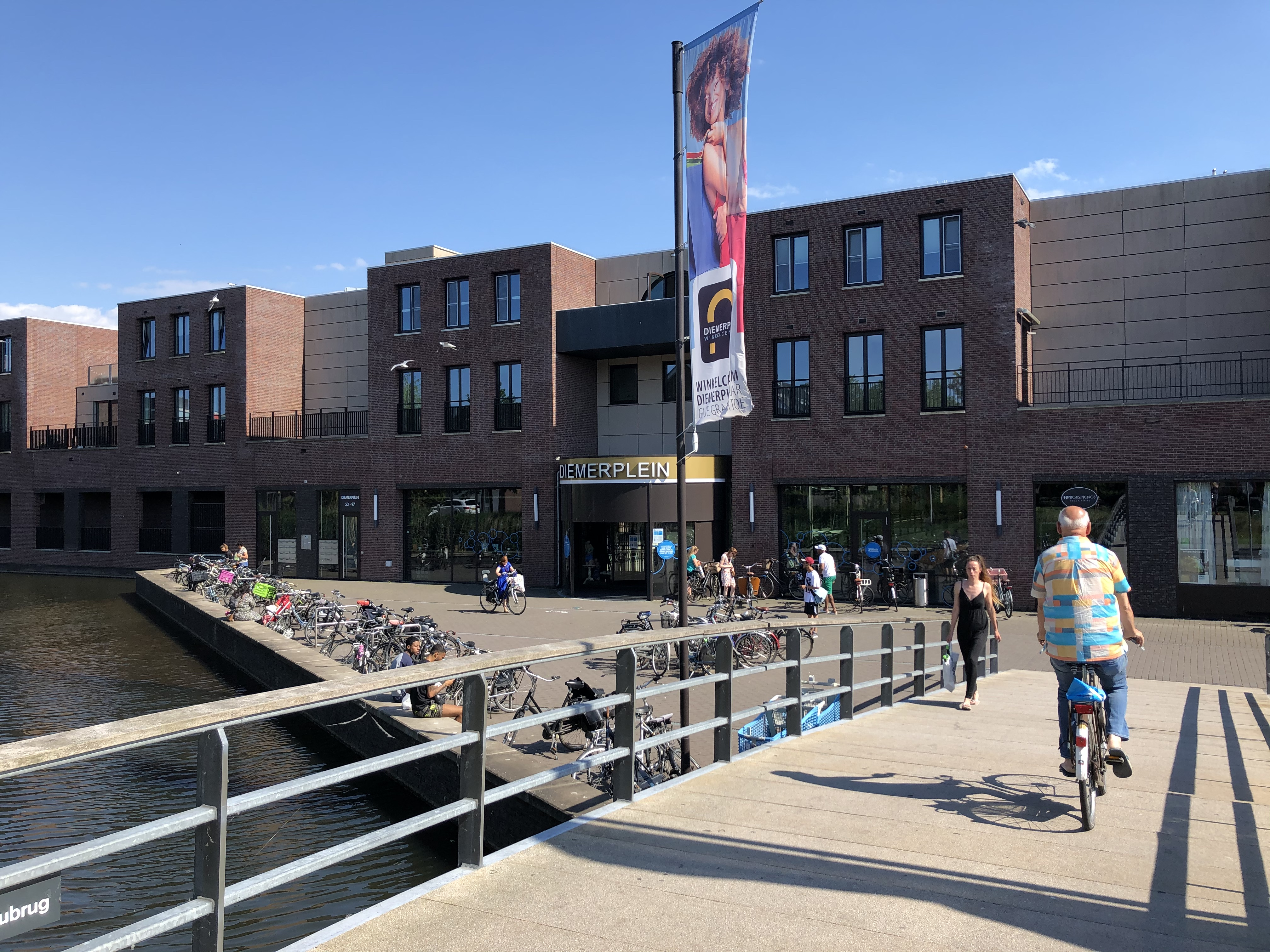 Entrance to shopping centre 'Diemerplein' in Diemen the Netherlands. Photograph taken from Kerckerinckweg.